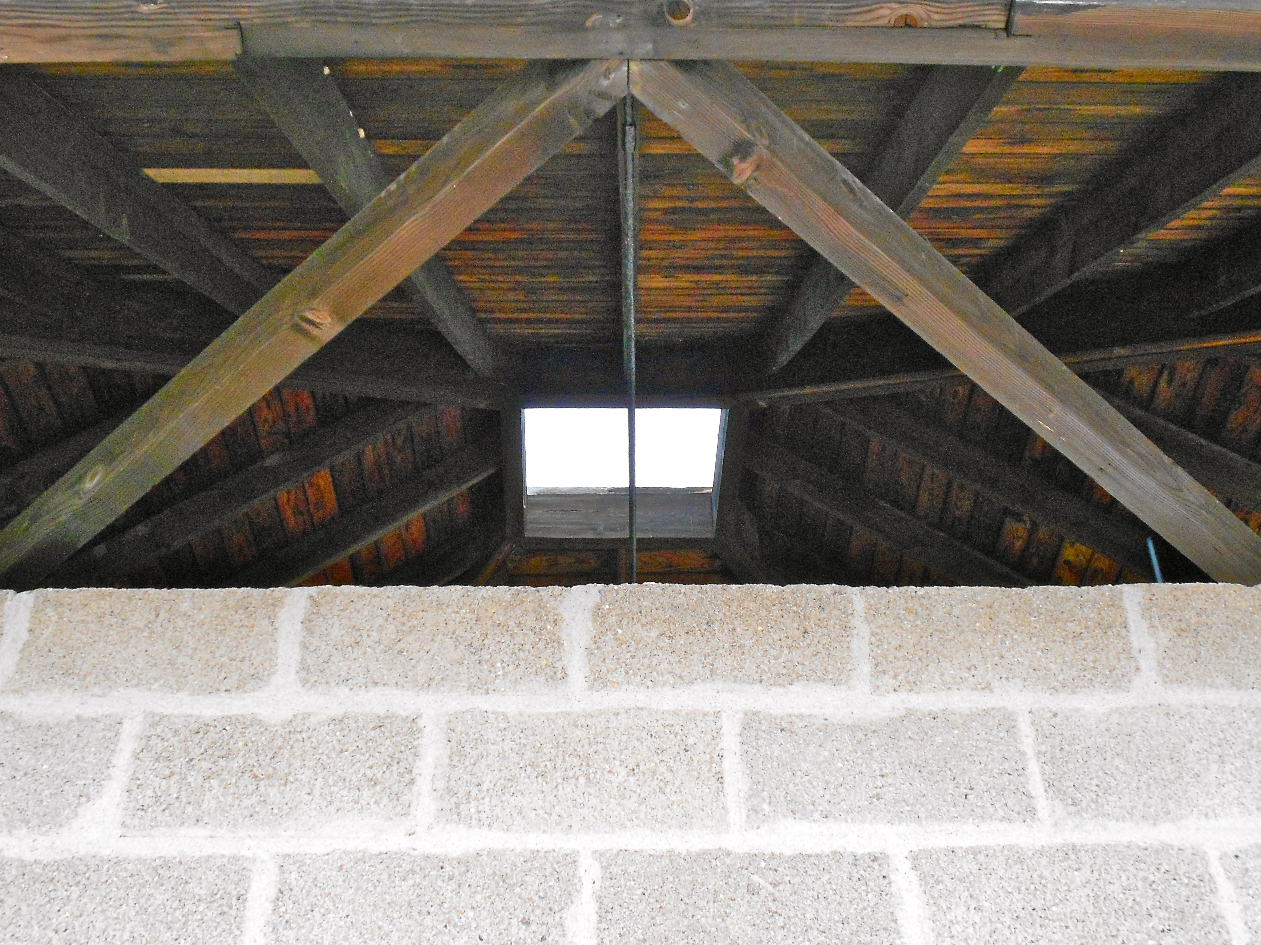 Trenton Jewish Community Center Bath House and Day Camp on the NRHP since February 23, 1984. Located at 999 Lower Ferry Rd., Ewing Township, Mercer County, New Jersey. Built 1951 as a poolhouse (for kids etc.) going to the swimming pool. Designed by Louis Kahn. There is a gap between the roof and the walls - this photo shows this gap looking from the outside to the skylights in the centers of the roofs.